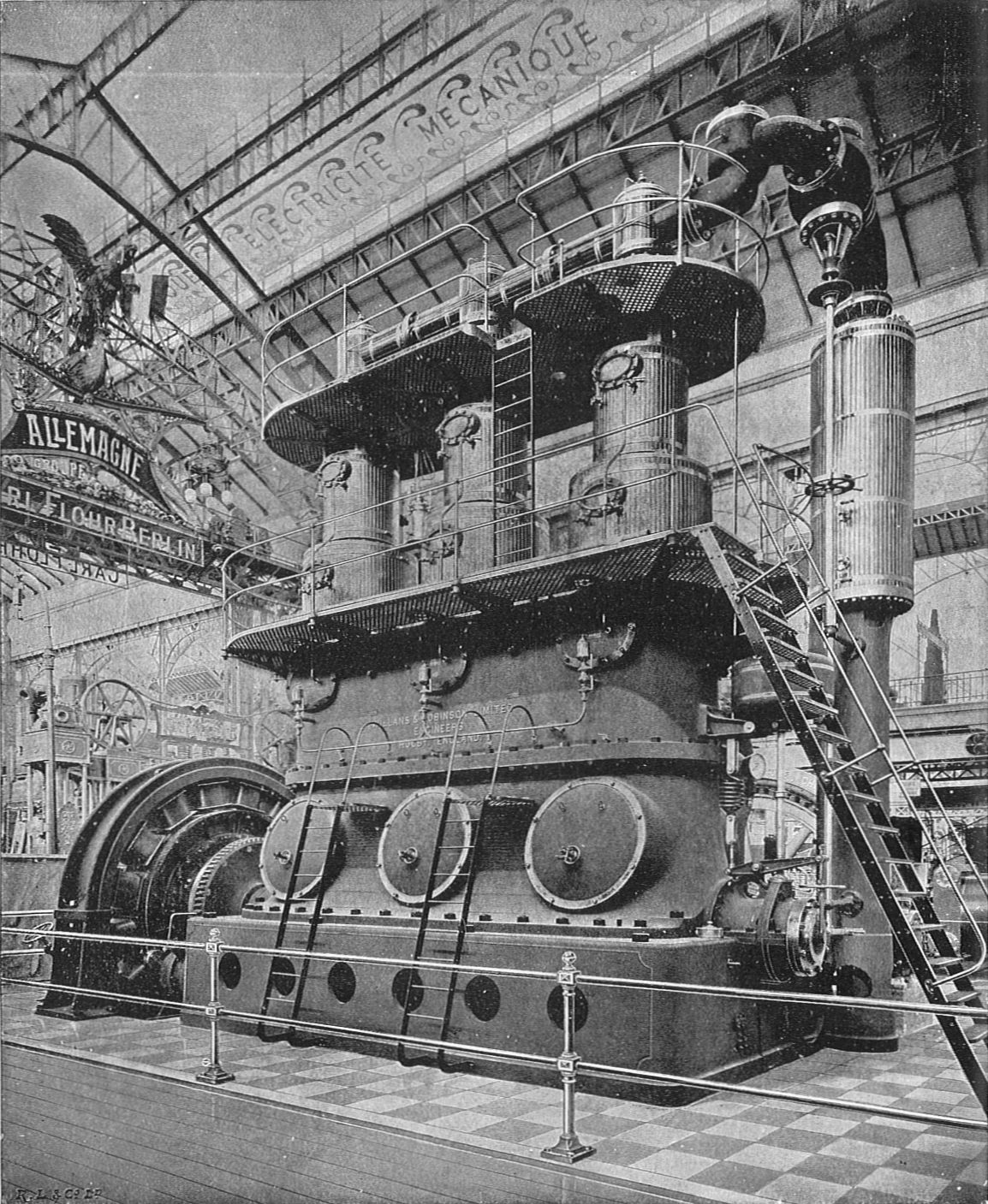 Willans and Robinson engine (Rankin Kennedy, Electrical Installations, Vol III, 1903).jpg